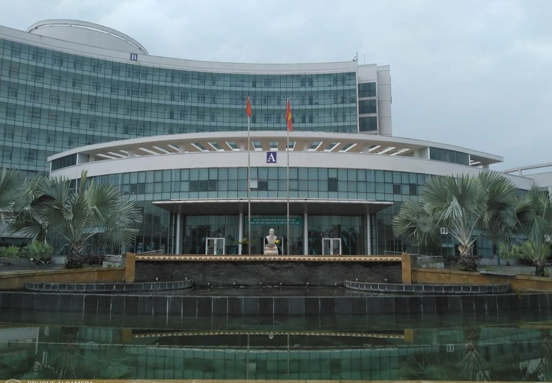 Đà Nẵng